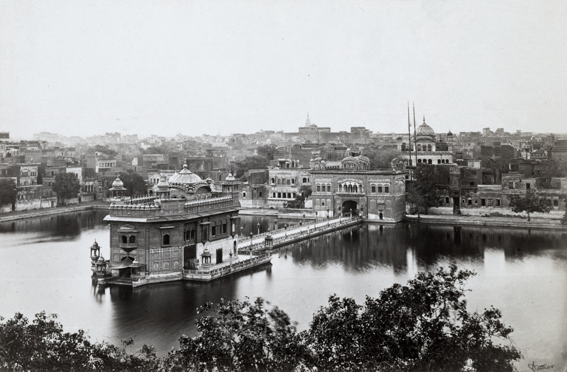 Photographer: Felice Beato (1832 – 1909) Medium:Photographic print, 23.6x28.2 centimetres Date: 1857-58c